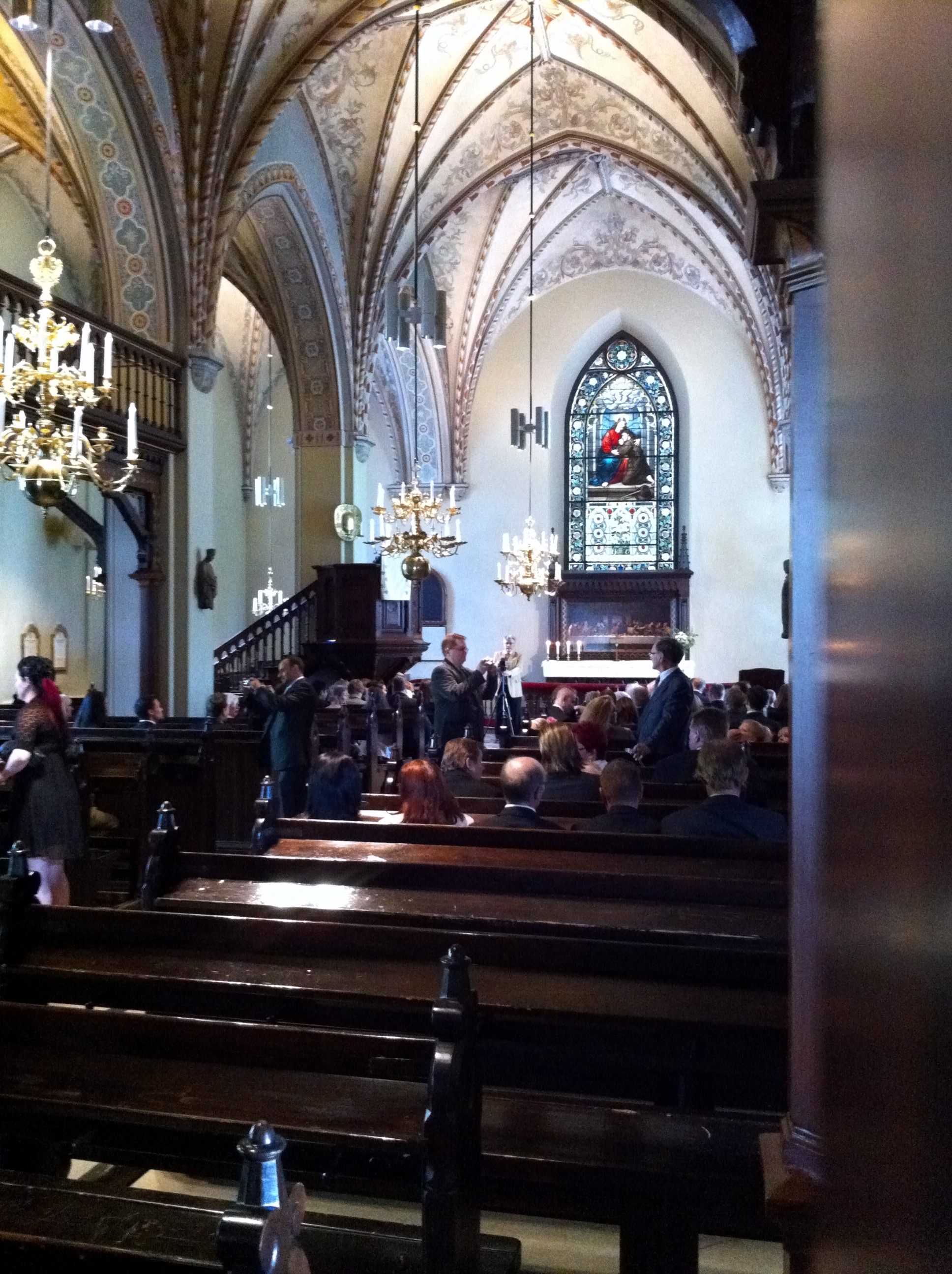 Interior of St. Lawrence's Church in Vantaa, Finland.